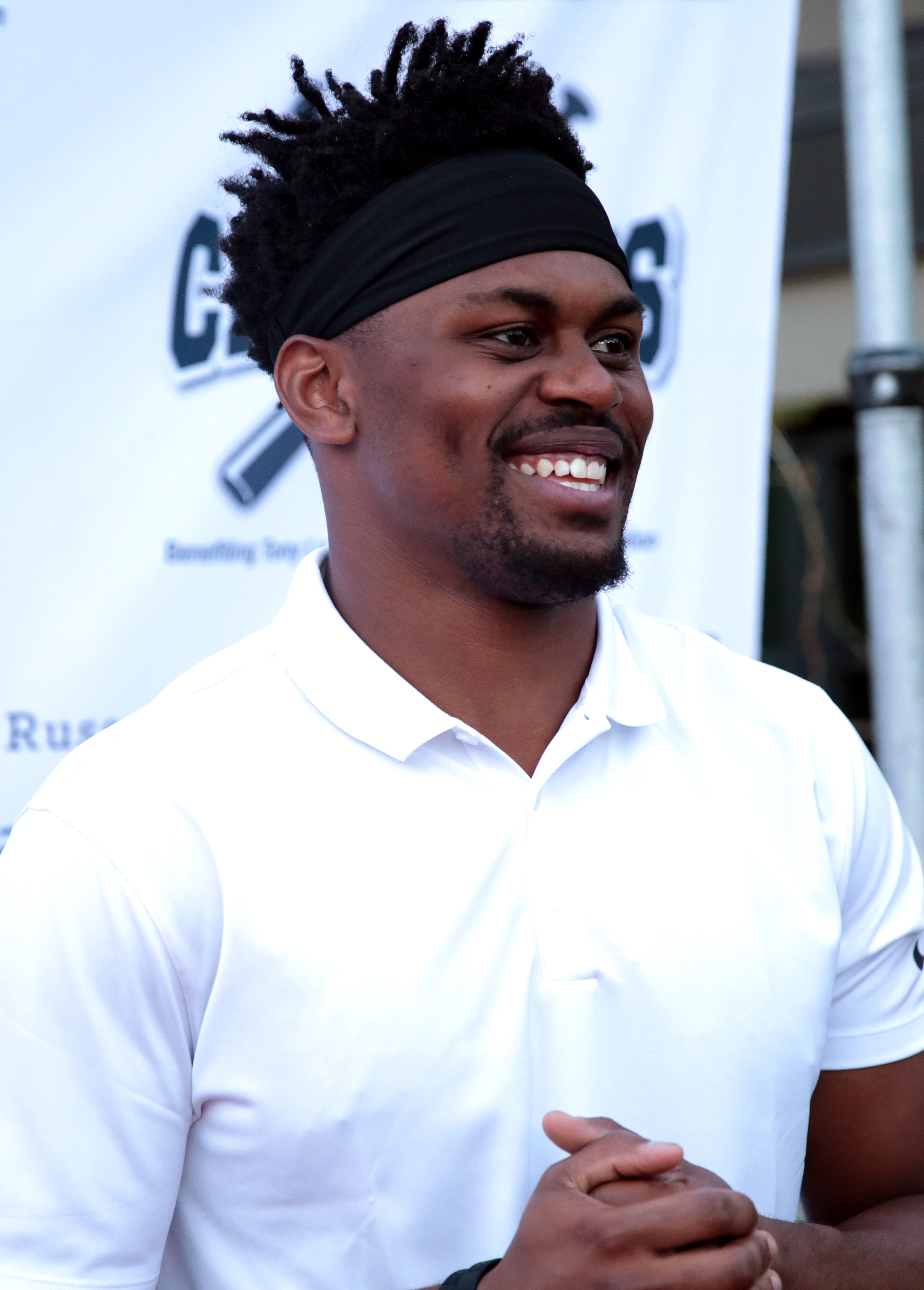 C. J. Prosise on the red carpet at the Dinner of Champions hosted by Tony La Russa in Phoenix, Arizona.